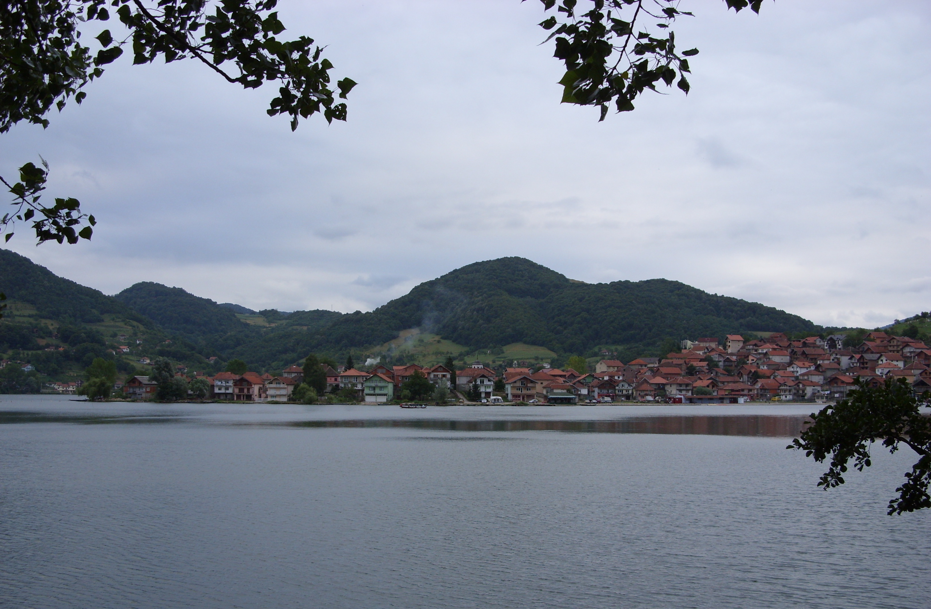 Divič village is located on a peninsula in Zvornik Reservoir, Bosnia.